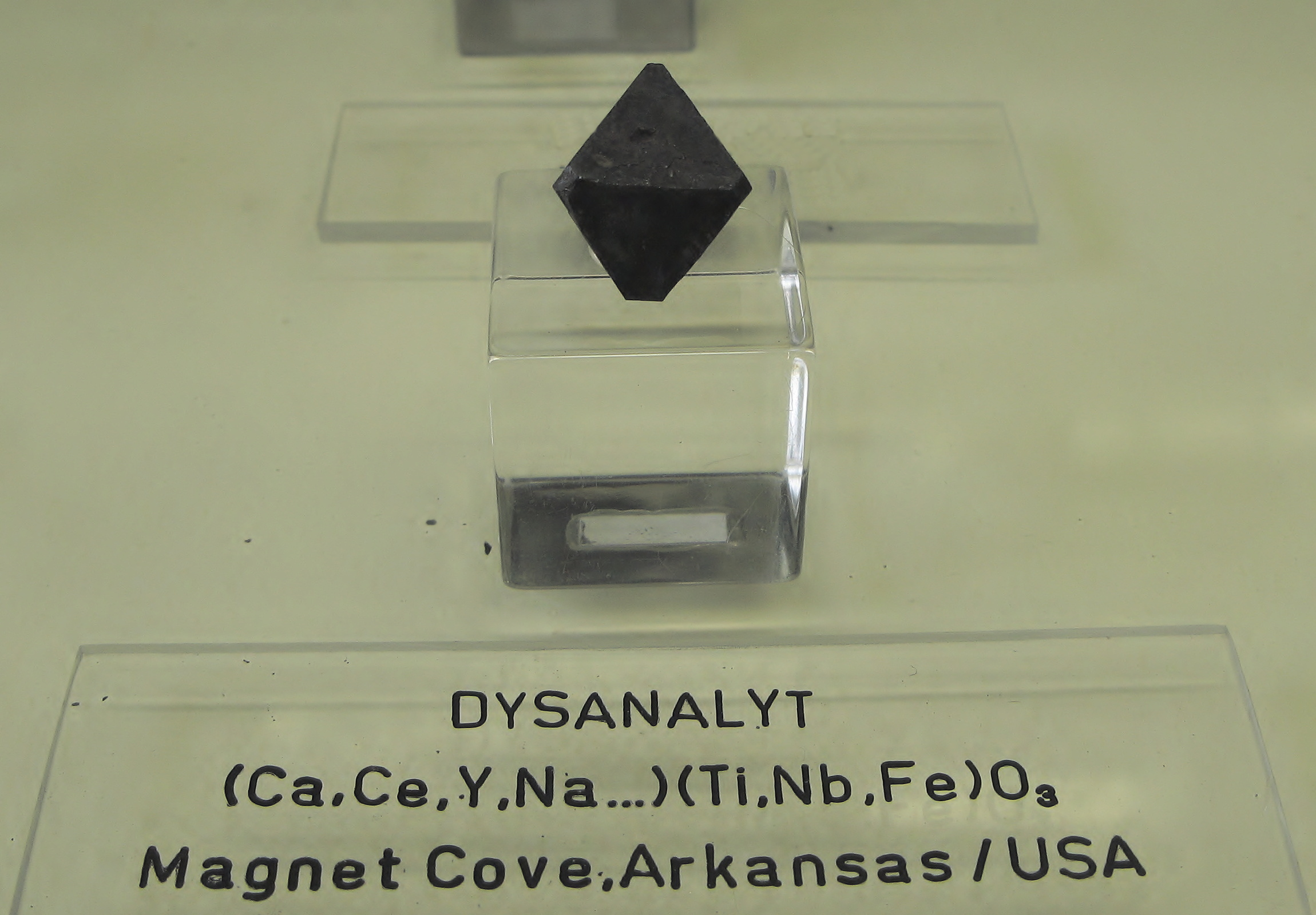 Dysanalyte, Variety of Perovskite, containing Niobium and Sodium